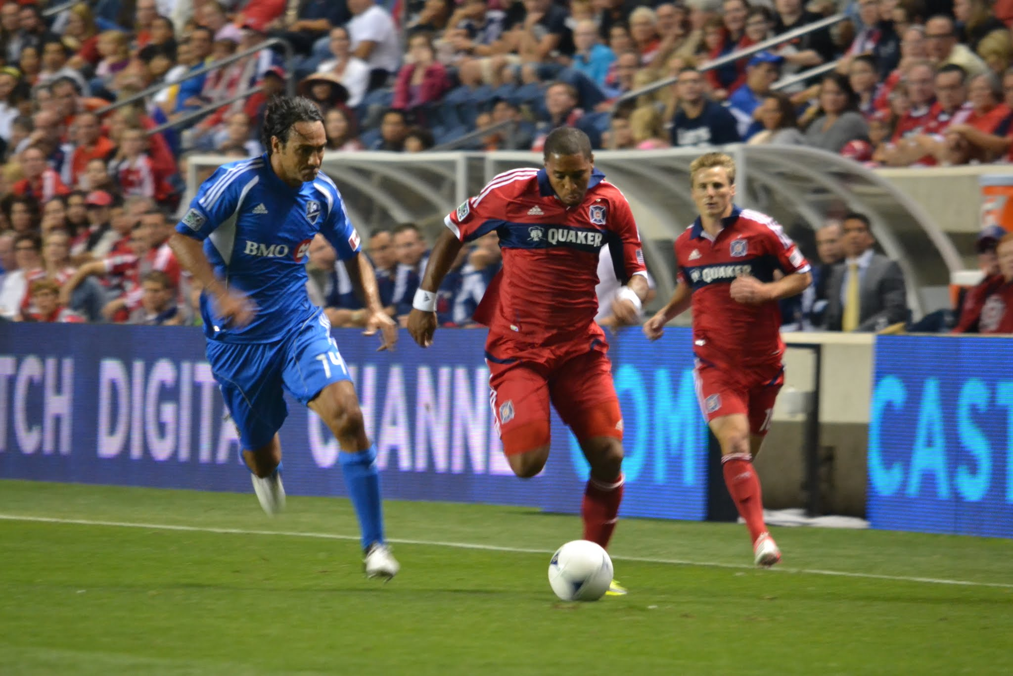 Alessandro Nesta of Montreal Impact and Sherjill Mac-Donald of Nationals